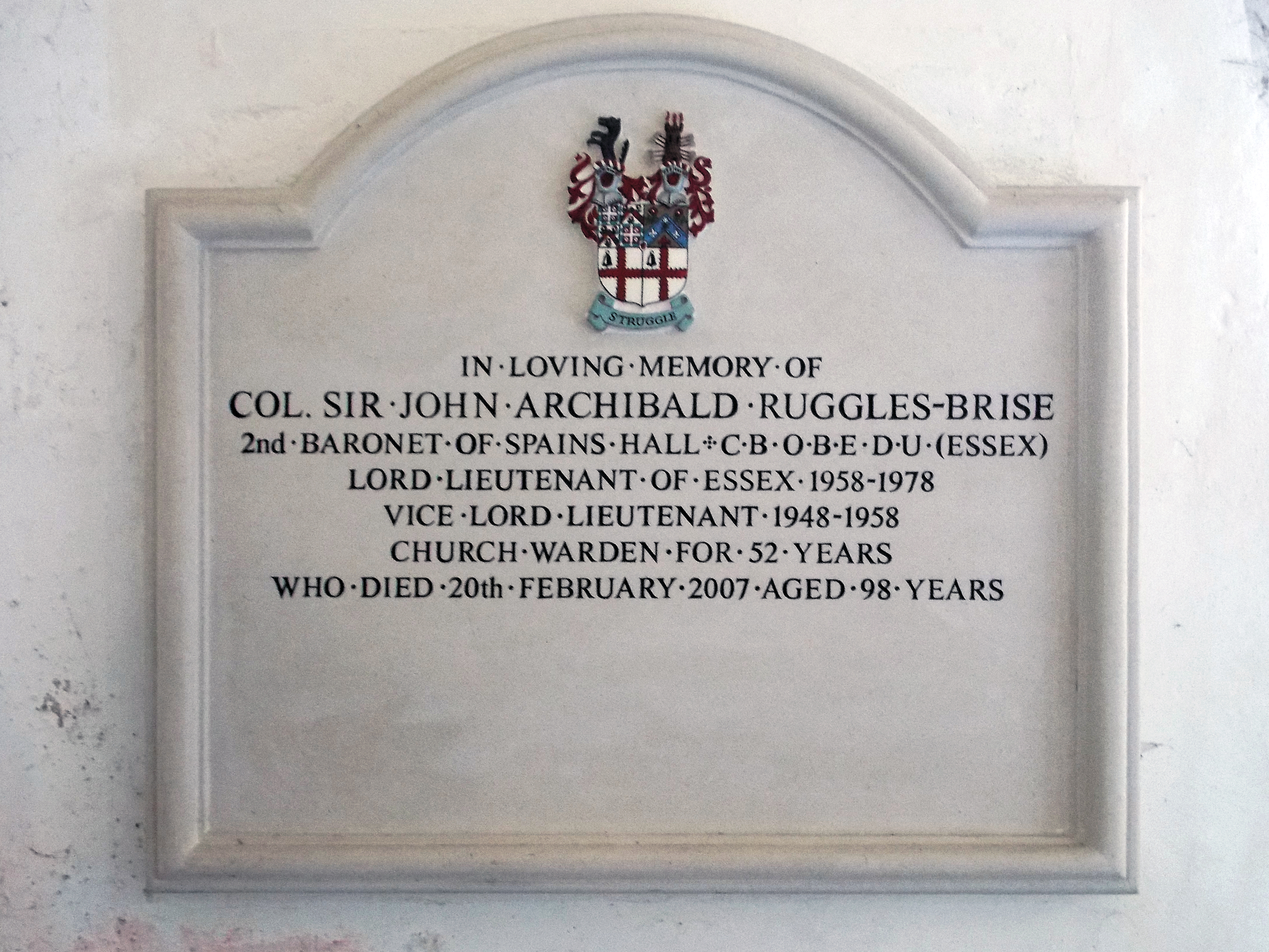 Wall memorial plaque to Colonel Sir John Archibald Ruggles-Brise, 2nd Baronet, (d.2007), in the north chapel of St John the Baptist's Church, Finchingfield, Essex, England.Software: file lens-corrected and optimized with DxO OpticsPro 10 Elite, and further optimized with Adobe Photoshop CS2.